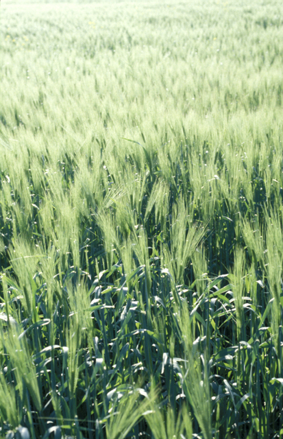 Picture of a field of barley in counterlight. Photograph taken by Sigve Holmen